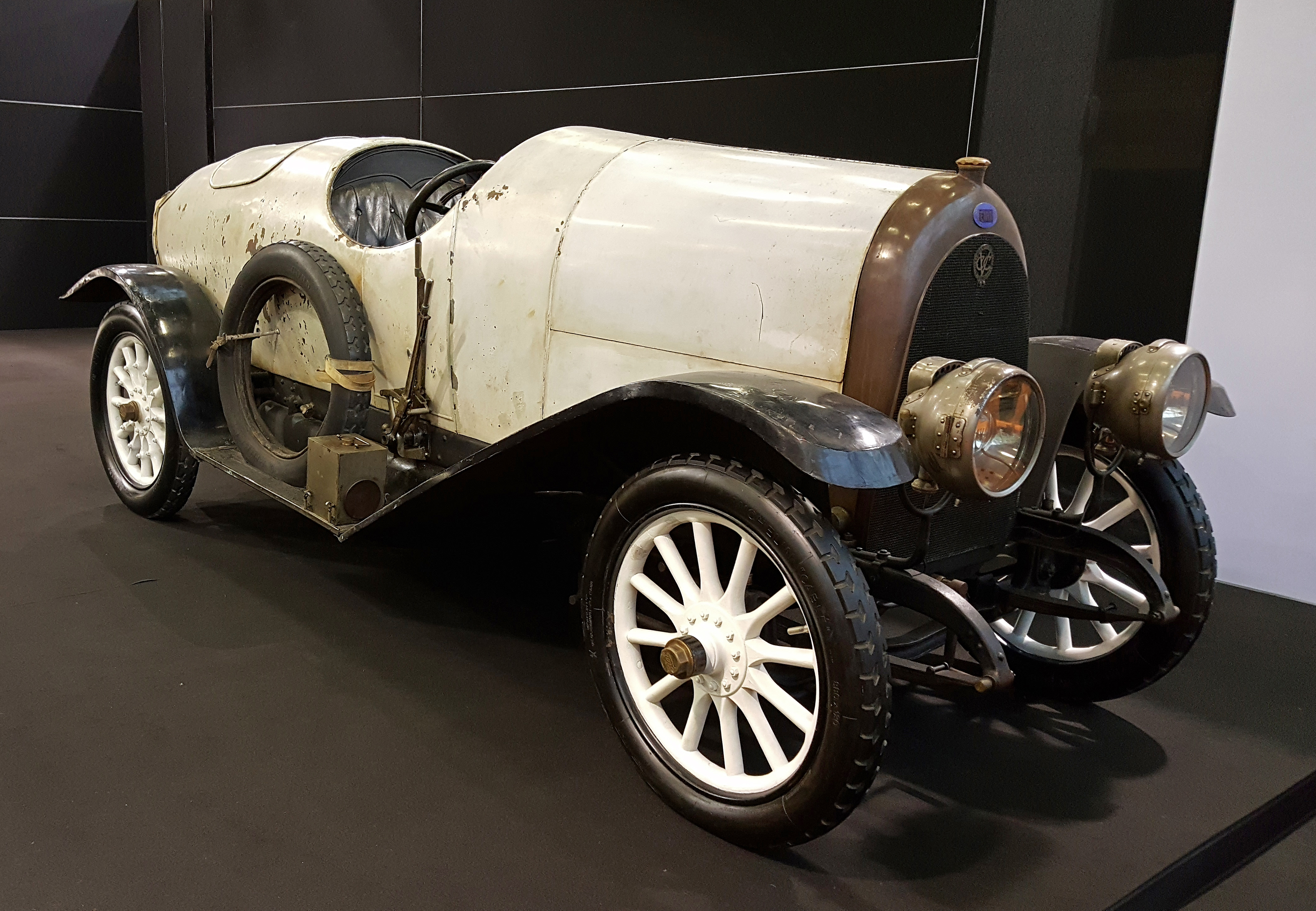 1913 Fiat Chiribiri record breaking car, 8-liter 130hp Chiribiri four-cylinder engine (60 tax hp) in a Fiat 50-60 HP (Tipo 5) chassis. Supposedly the first Italian monoposto, also rare for having streamlined bodywork and for the fact that it wasn't scrapped after the record was beat. Did a 160km/h flying kilometer at Monza in 1918. Currently part of the Righetti Collection; here it is displayed at the Bologna Motor Show in December 2016.